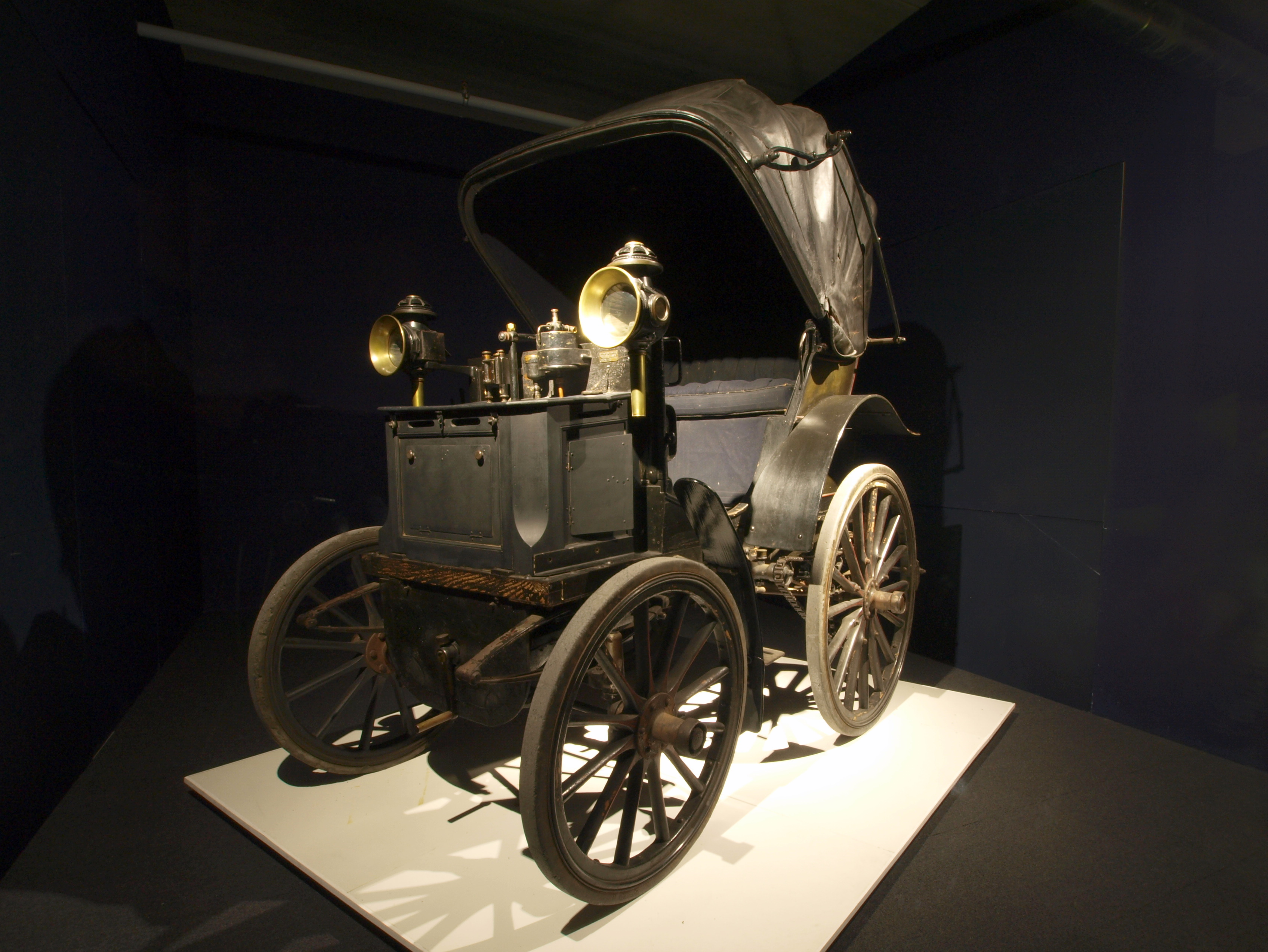 1895 Panhard & Levassor Phaeton with capote. photographed at the Louwman museum, The Netherlands.